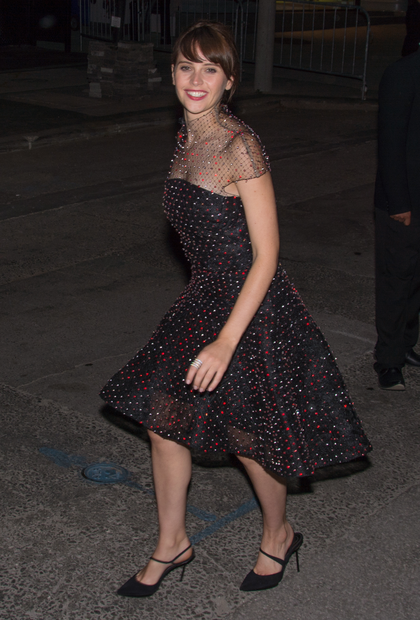 Actress Felicity Jones arriving for the Hollywood Foreign Press Association & InStyle's 2014 TIFF Celebration